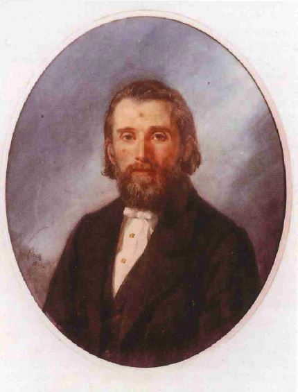 Portrait of Édouard Traviès (1809-1876)